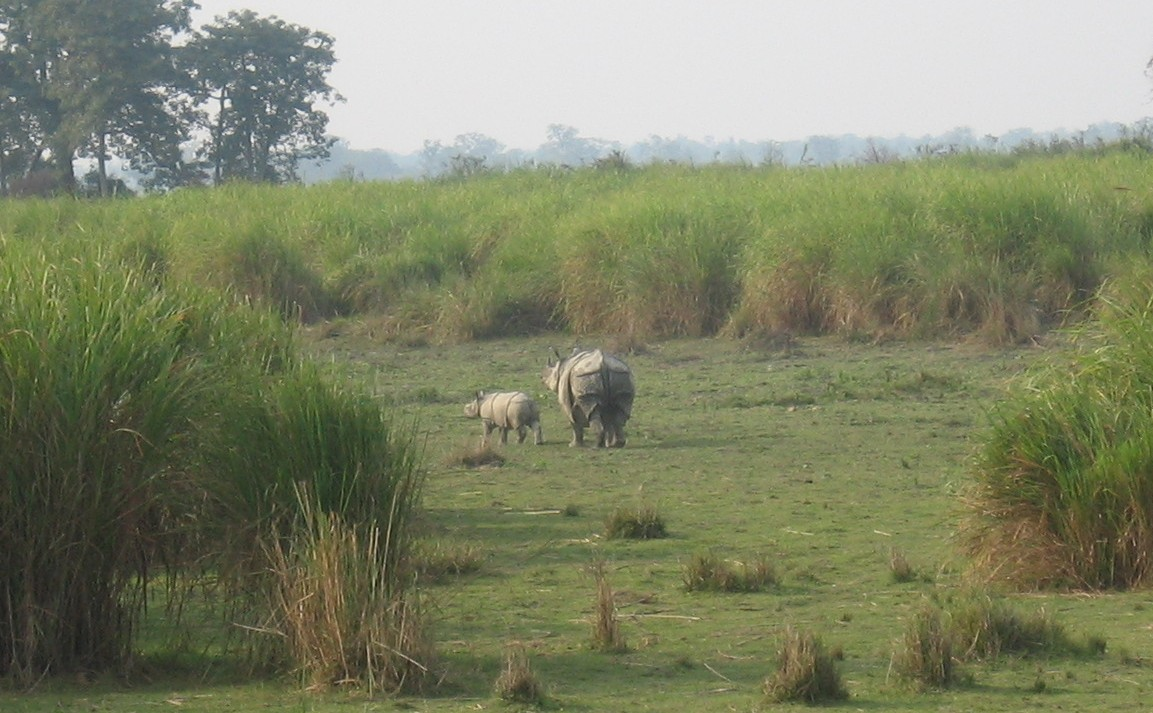 A mother and calf Indian Rhinoceros (Rhinoceros unicornis) grazing in the Kaziranga National Park in the soft afternoon light. Photo taken using a Canon Powershot A520 from a Jeep